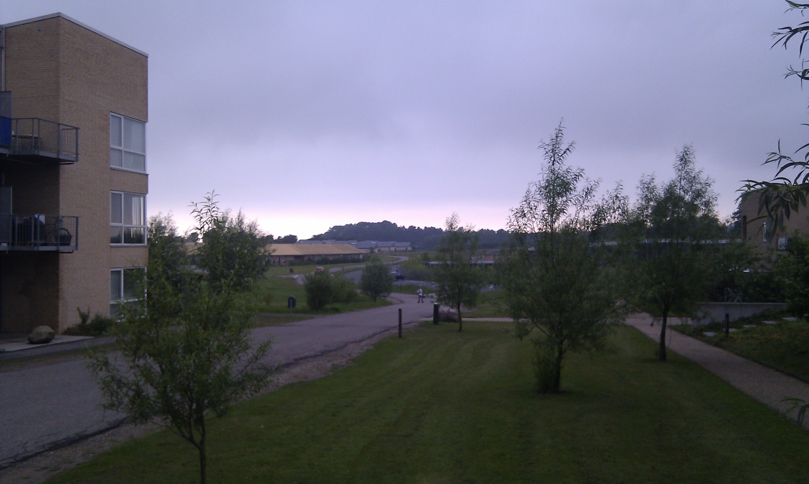 landscape in the district Bernts Have in Holbæk, Denmark